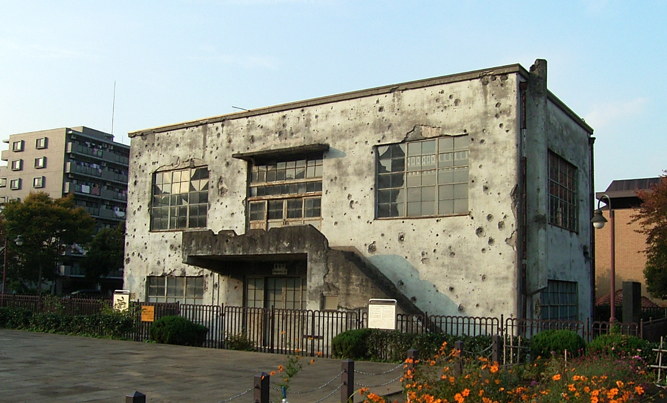 Hitachi plane Tachikawa transformer substation 旧日立航空機立川変電所 ｢東大和市指定史跡｣ 東京都東大和市桜が丘2-106-2